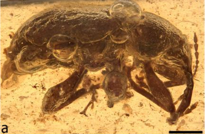 Acalyptopygus lingziae, holotype. Habitus, right (a); Scale bar: 0.5 mm.